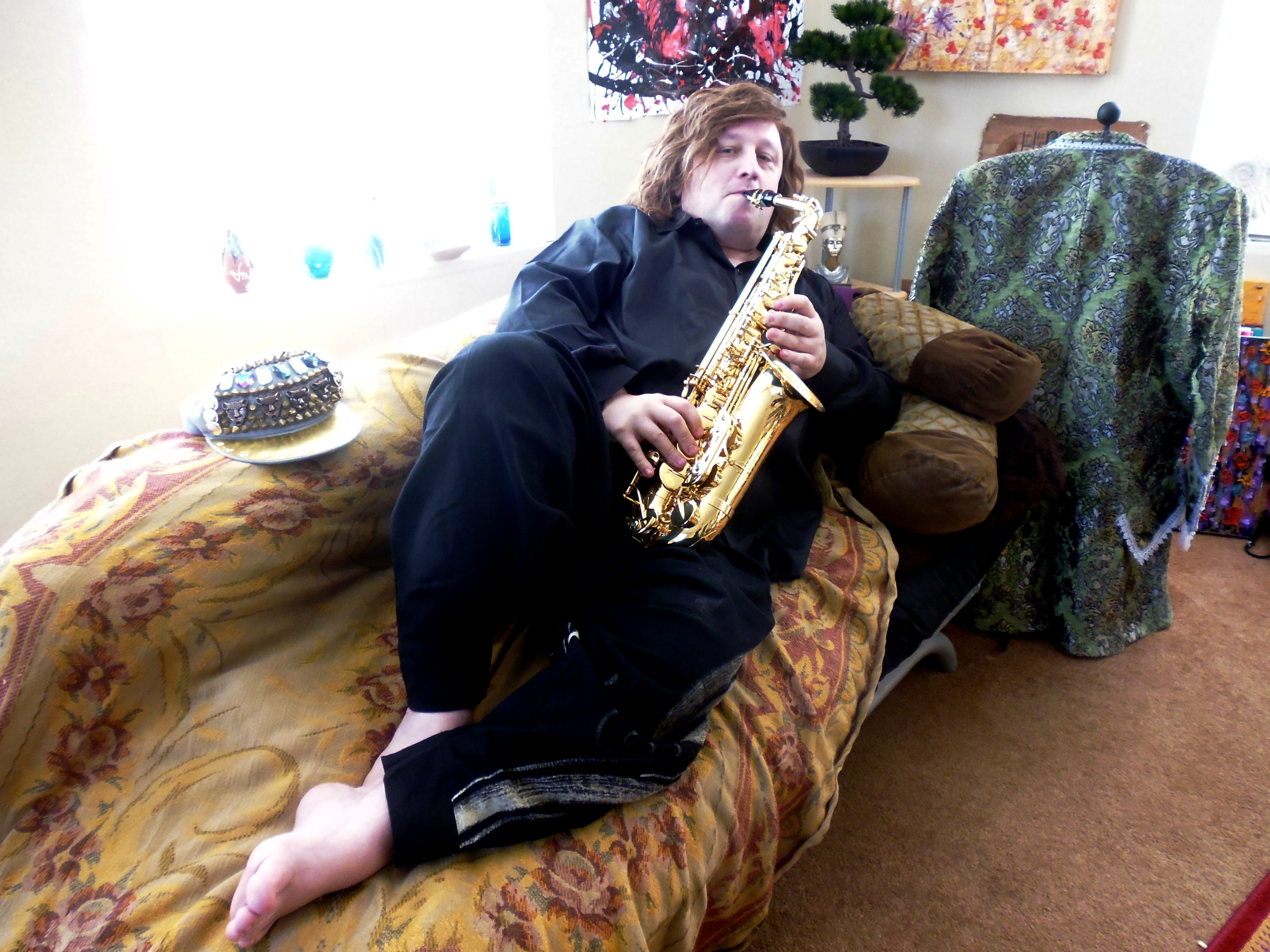 Gravity Noir's band member Andrew Williams playing his favourite saxophone